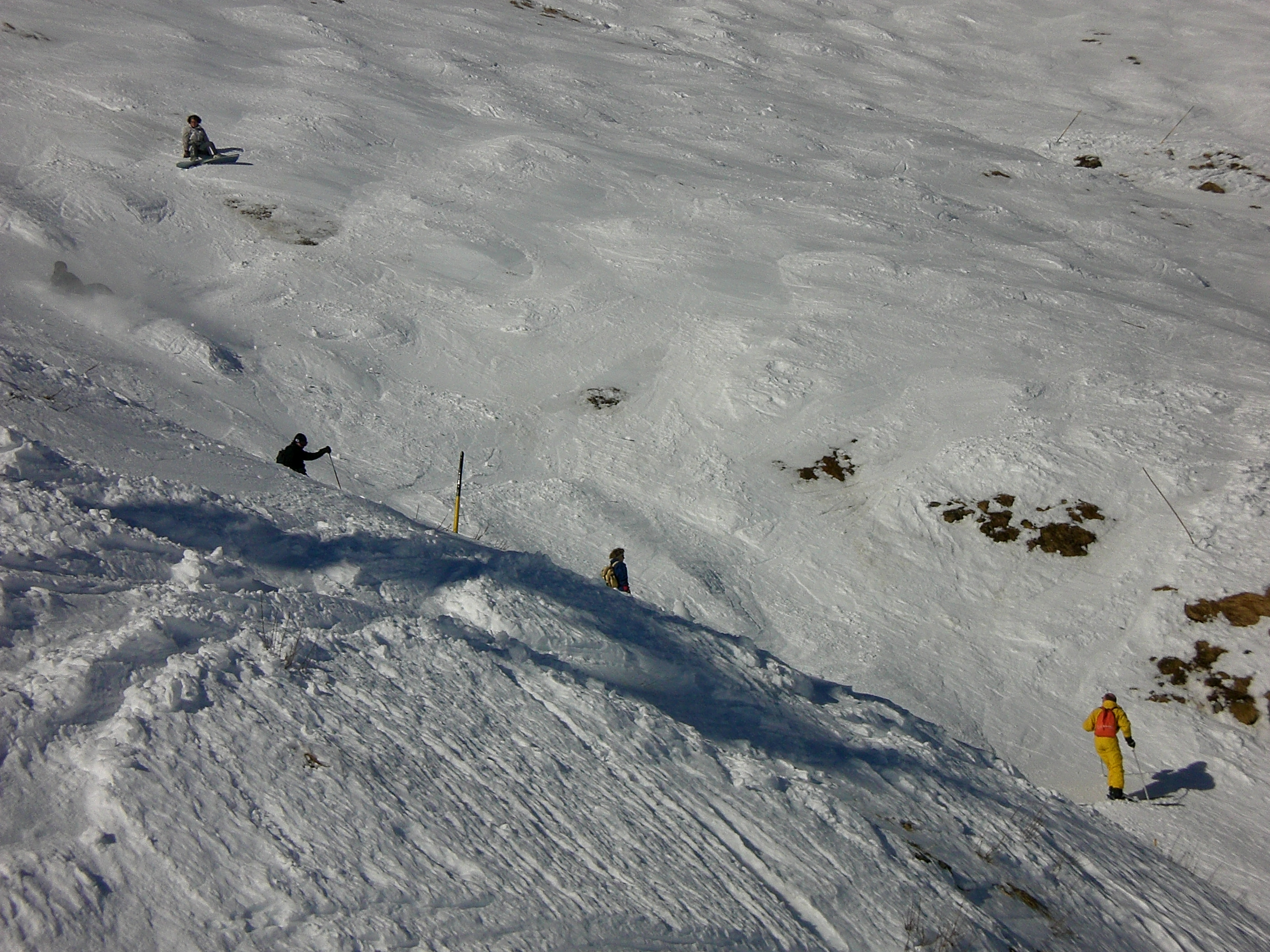 Picture taken by Ale de Vries